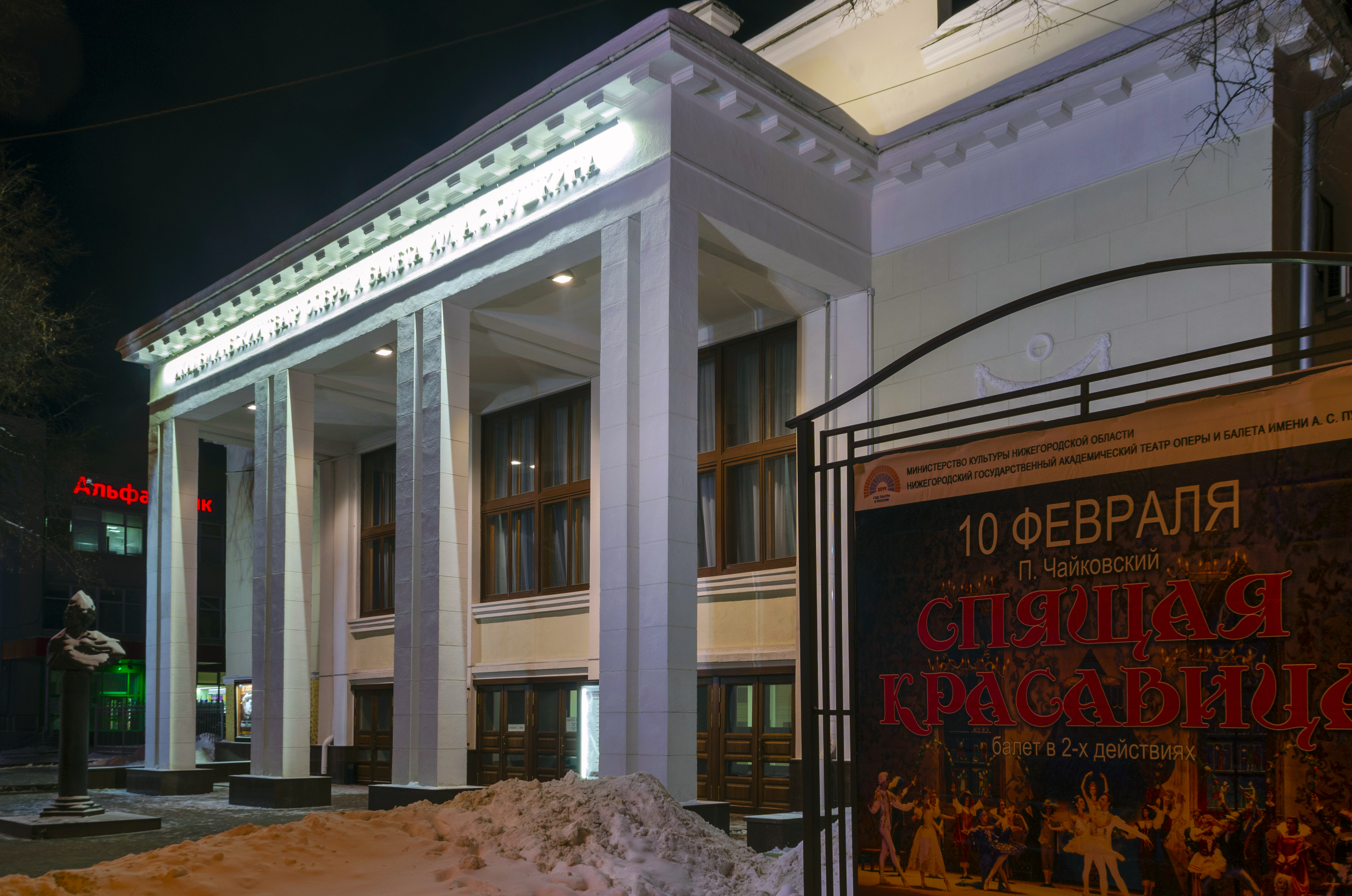 Opera House in Nizhny Novgorod at night